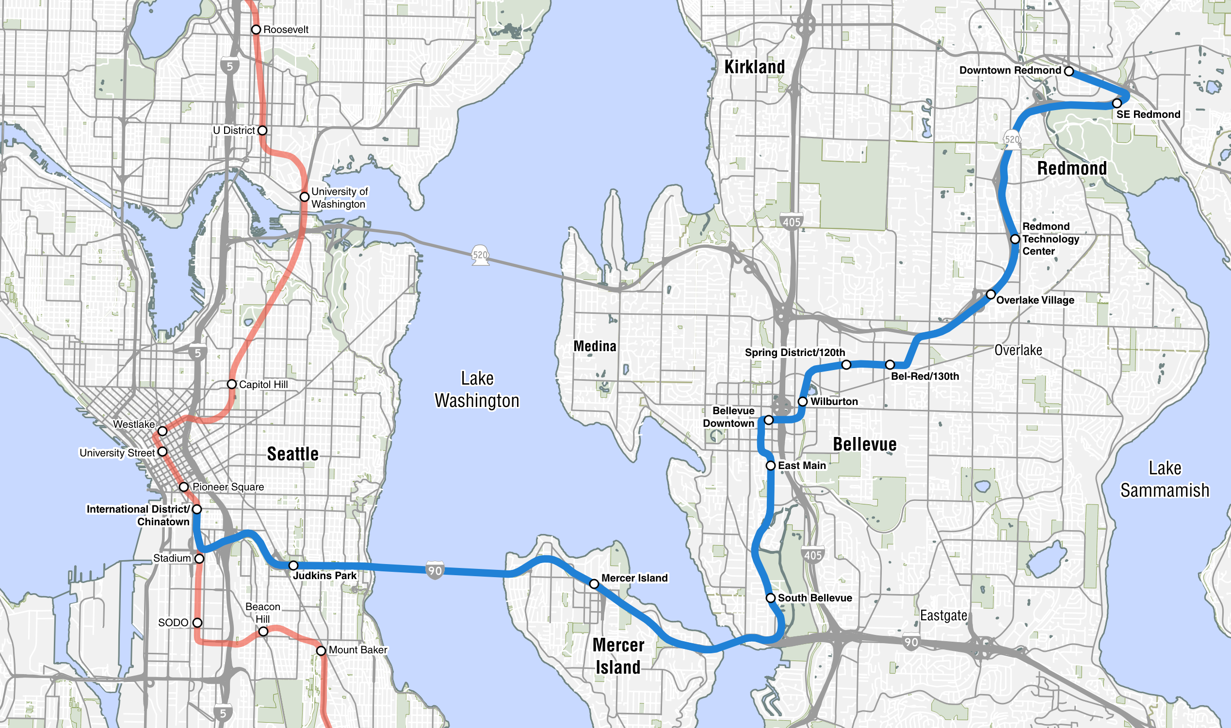 A map of the East Link Extension, an under construction Link light rail line that will connect Seattle to its eastern suburbs.